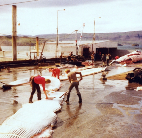 Whale slaughter in Iceland.